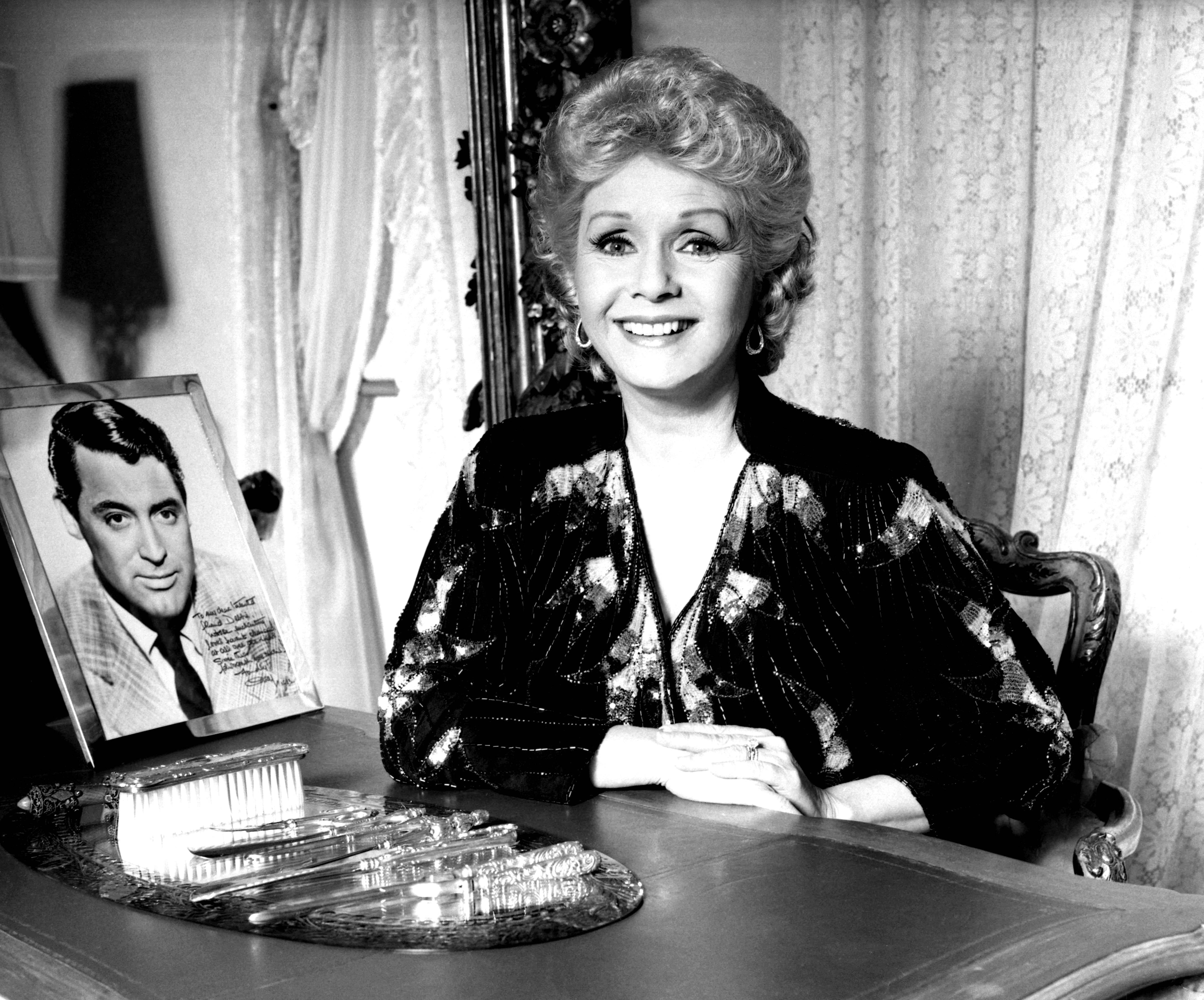 portrait of Debbie Reynolds at home Los Angeles